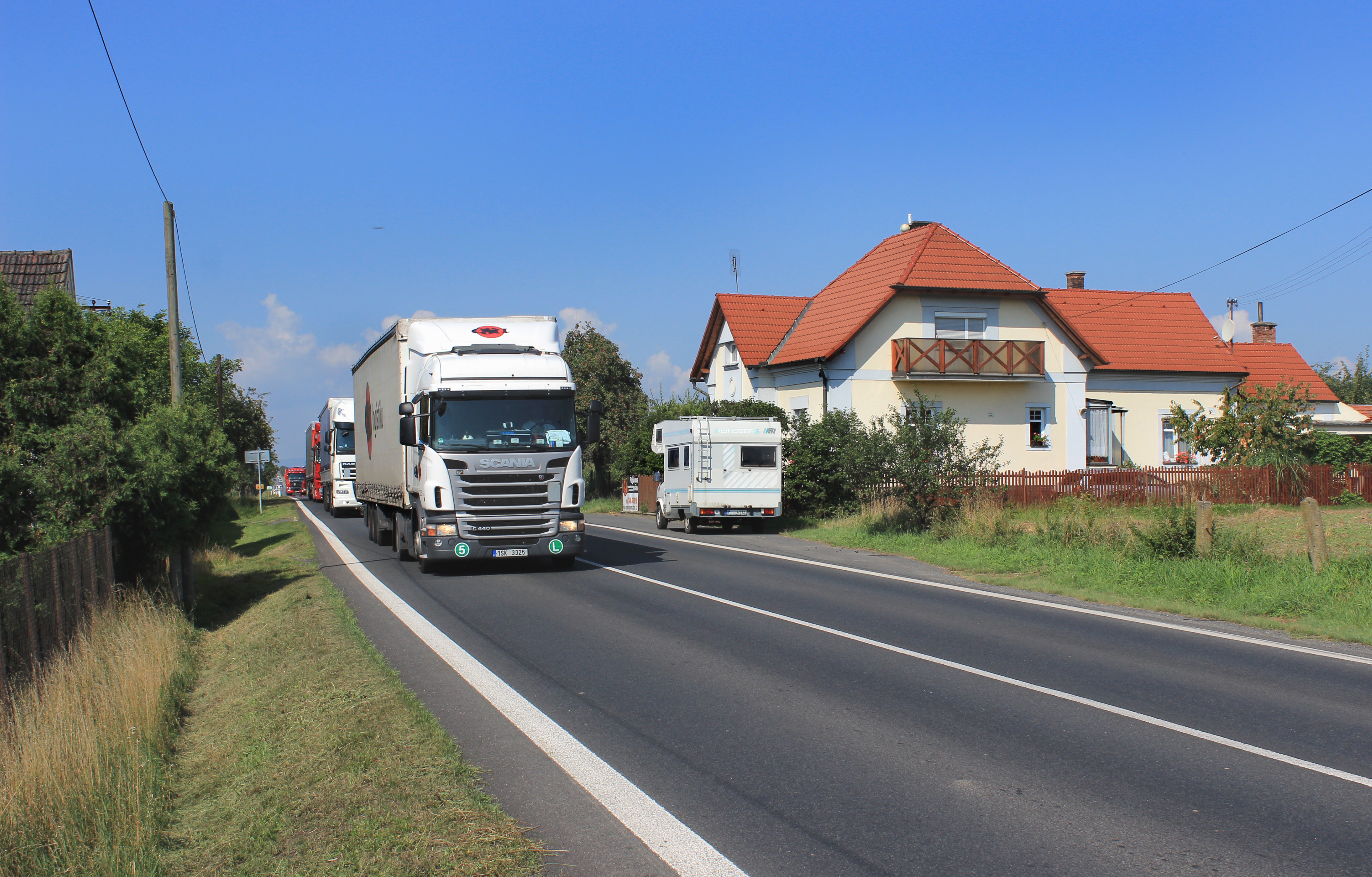 Road No. 26 in Křenovy, Czech Republic.